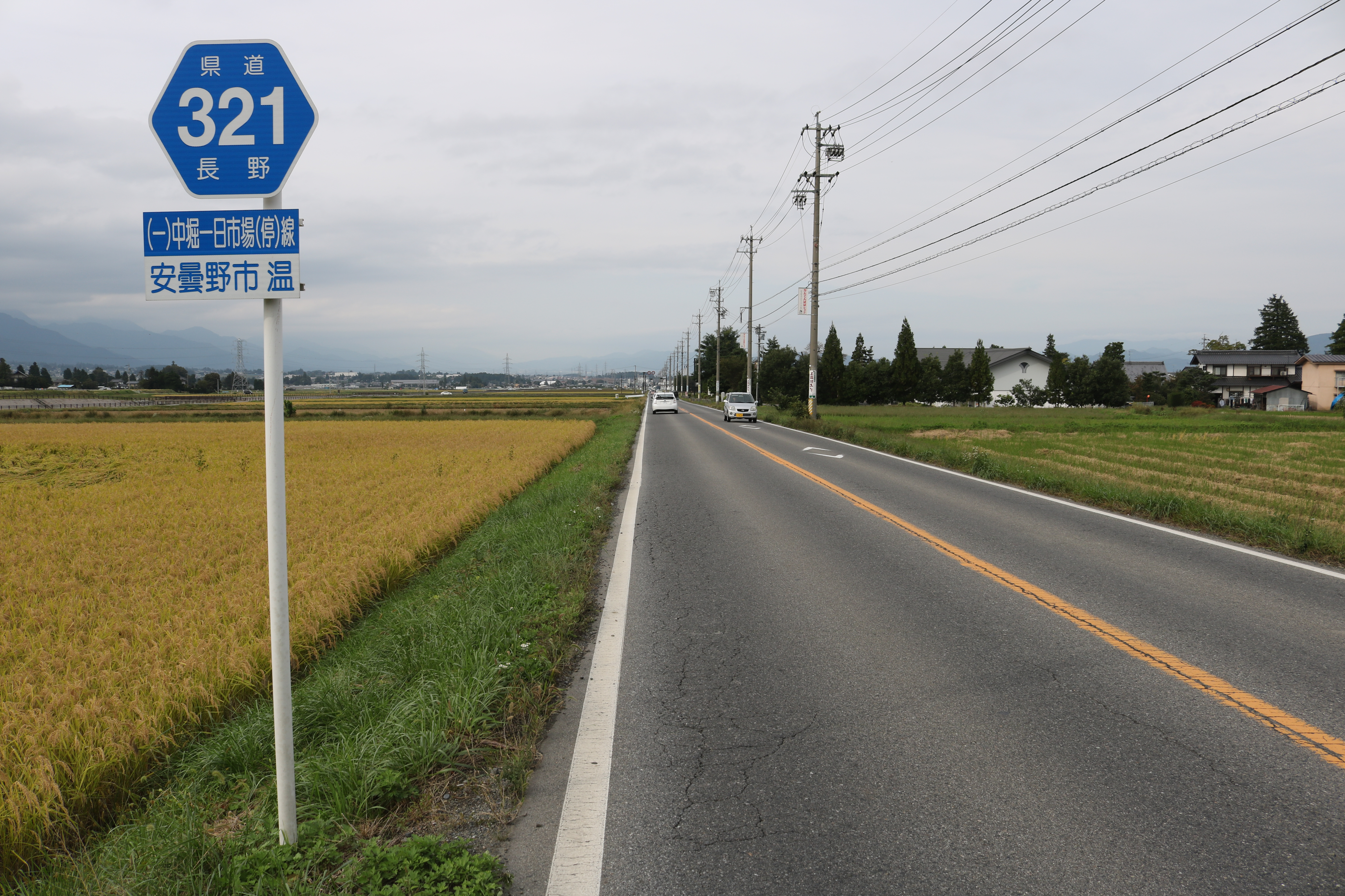 Nagano Prefectural Road Route 321 in Misatoyutaka, Azumino, Nagano Prefecture, Japan.